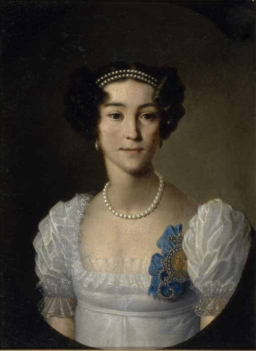 Portrait of Countess Anna Orlova